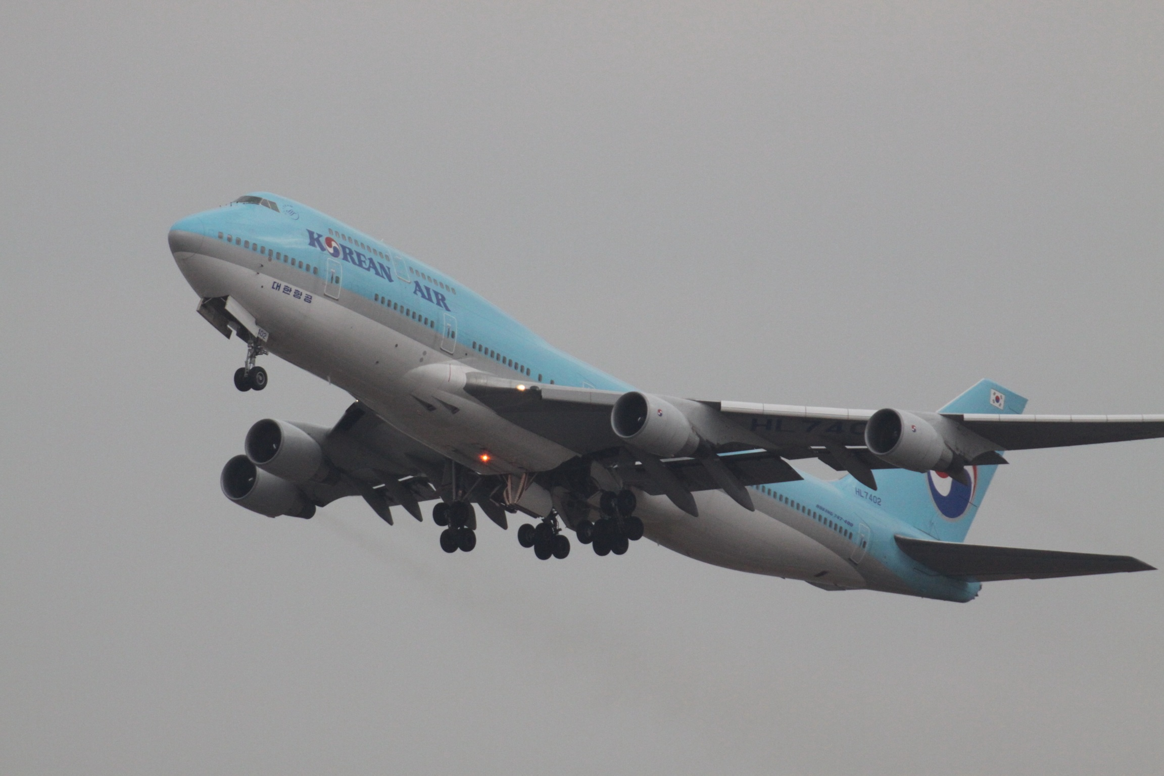 At Seoul Gimpo International Airport